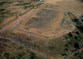 Aerial view of Roberts redboubt San Juan Island